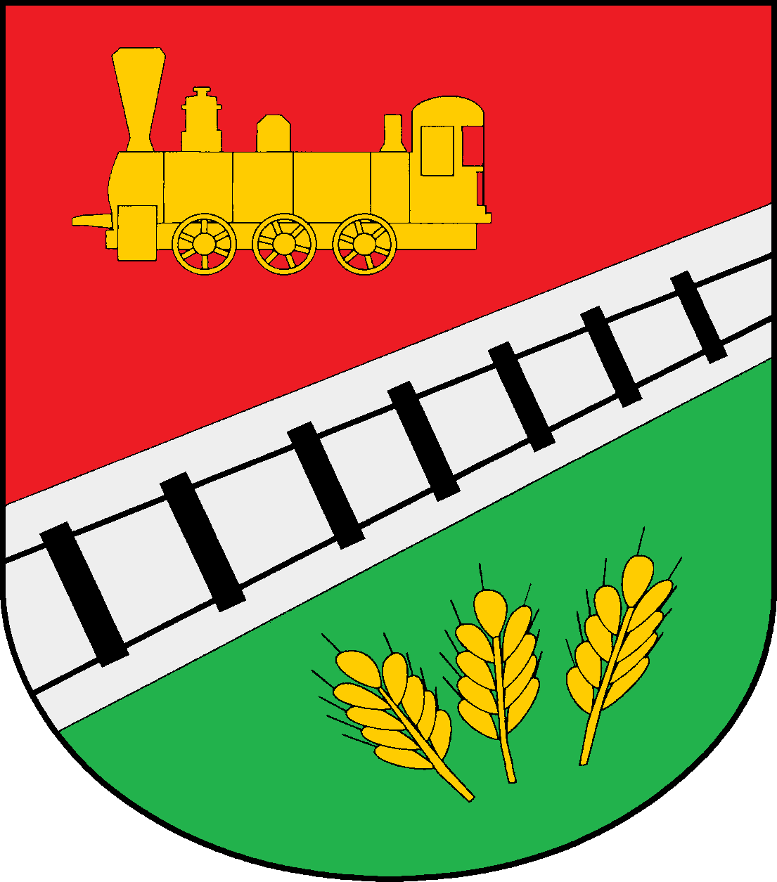 Coat of arms of the municipality Hollenbek in Schleswig-Holstein, Germany.